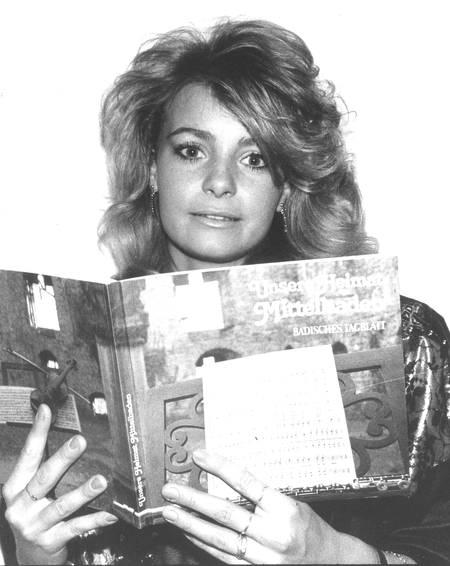 Miss Germany 1986/87 Anja Hoernich during a book presentation in Baden-Baden, 1987 "Queen of Europe", later married with singer Bernd Clüver